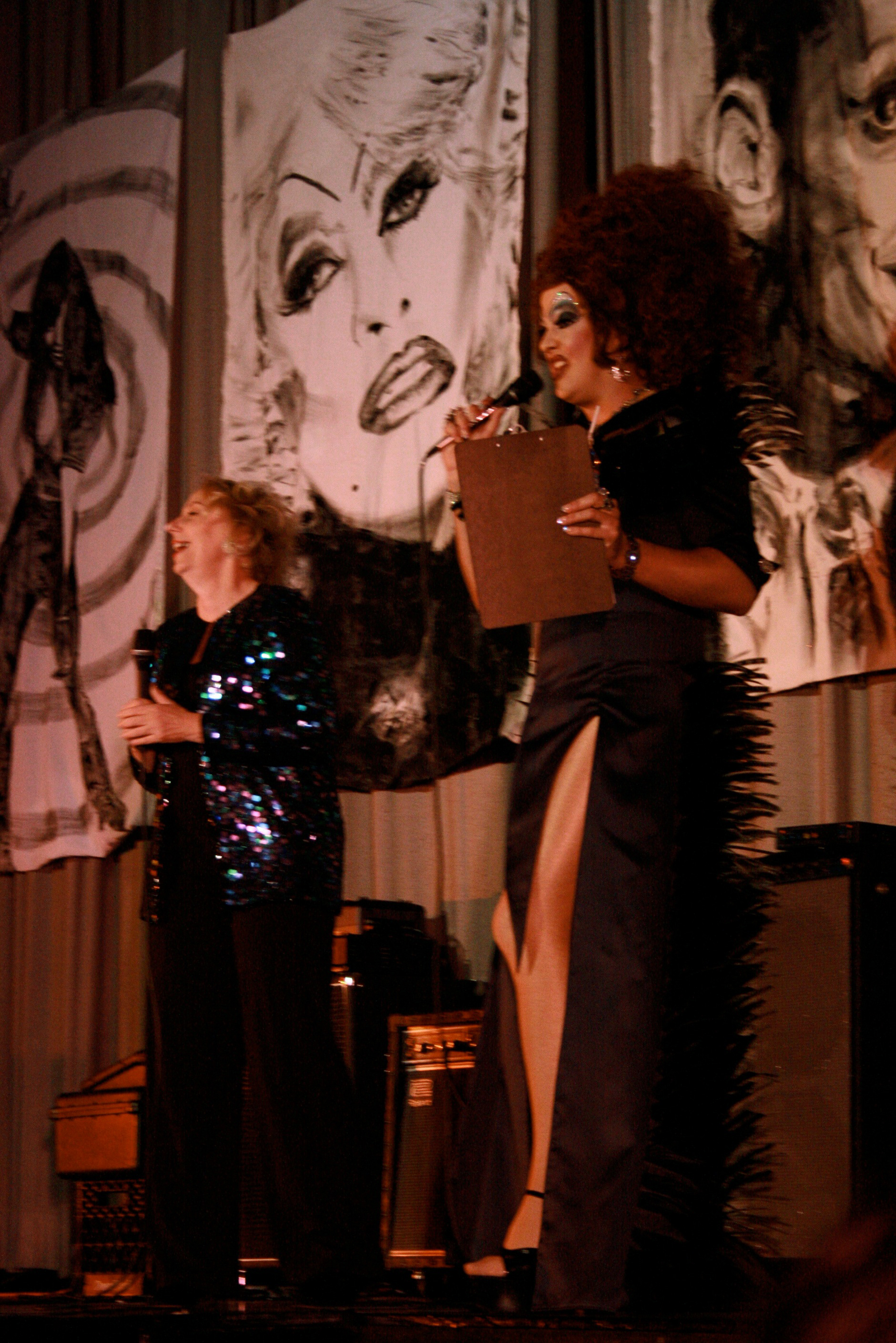 Mink Stole and Peaches Christ at a Midnight Mass showing of Desperate Living at the Bridge Theater in San Francisco, California, United States